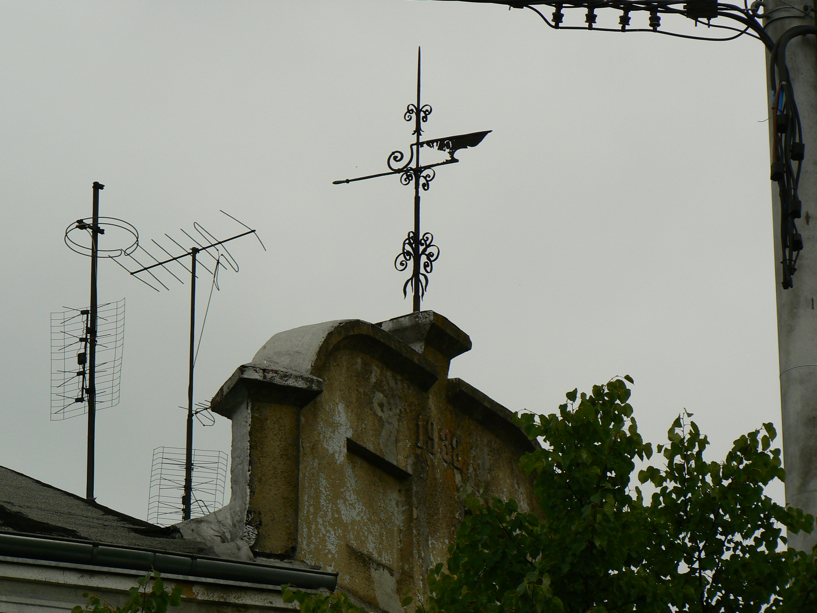 Old weather vane on the building from 1938 (Bełchatów, Poland)